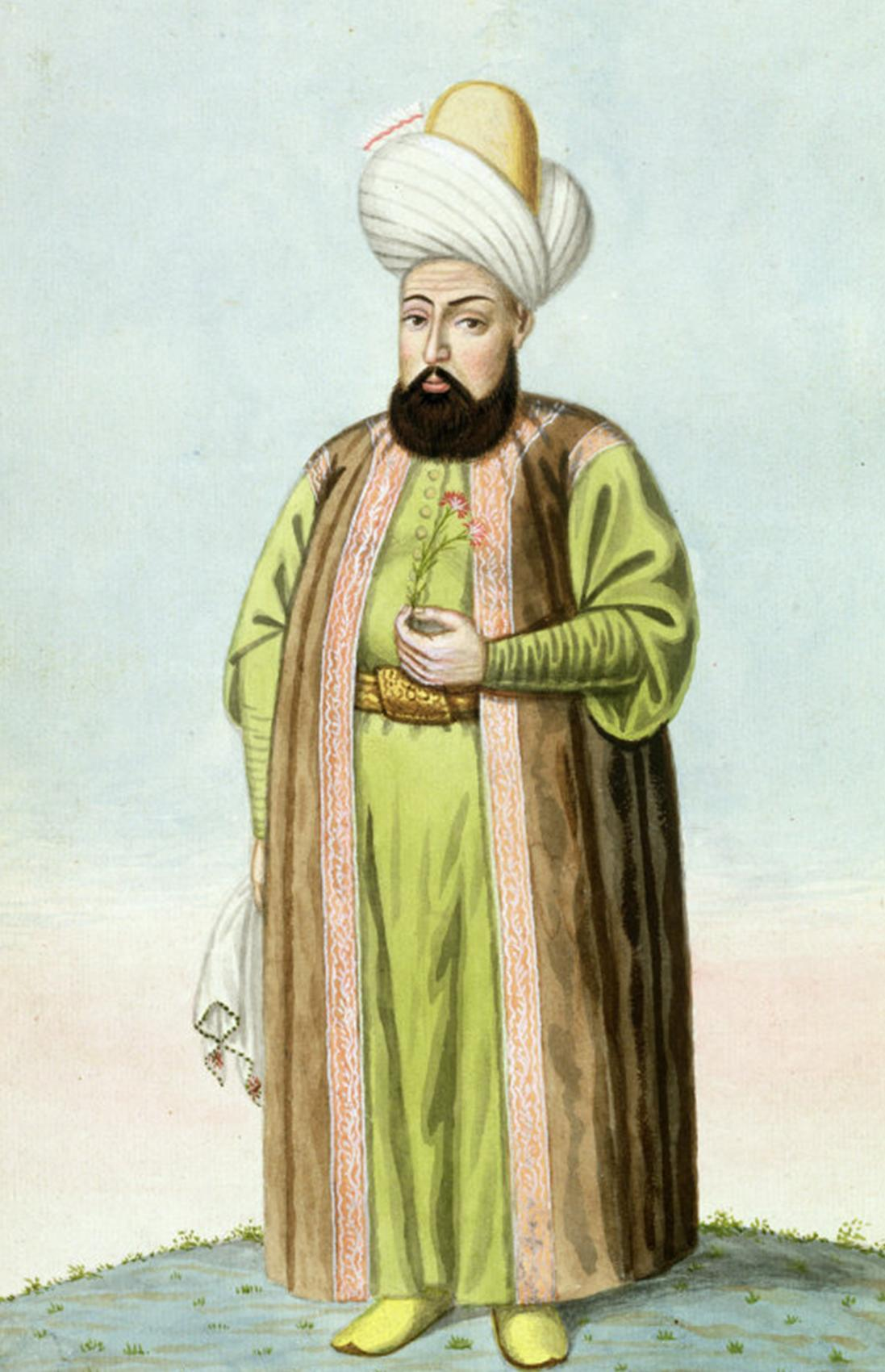 Portrait of Osman I, founder and first Sultan of the Ottoman Empire (1281-1326). The portrait has been printed using the Giclée process.